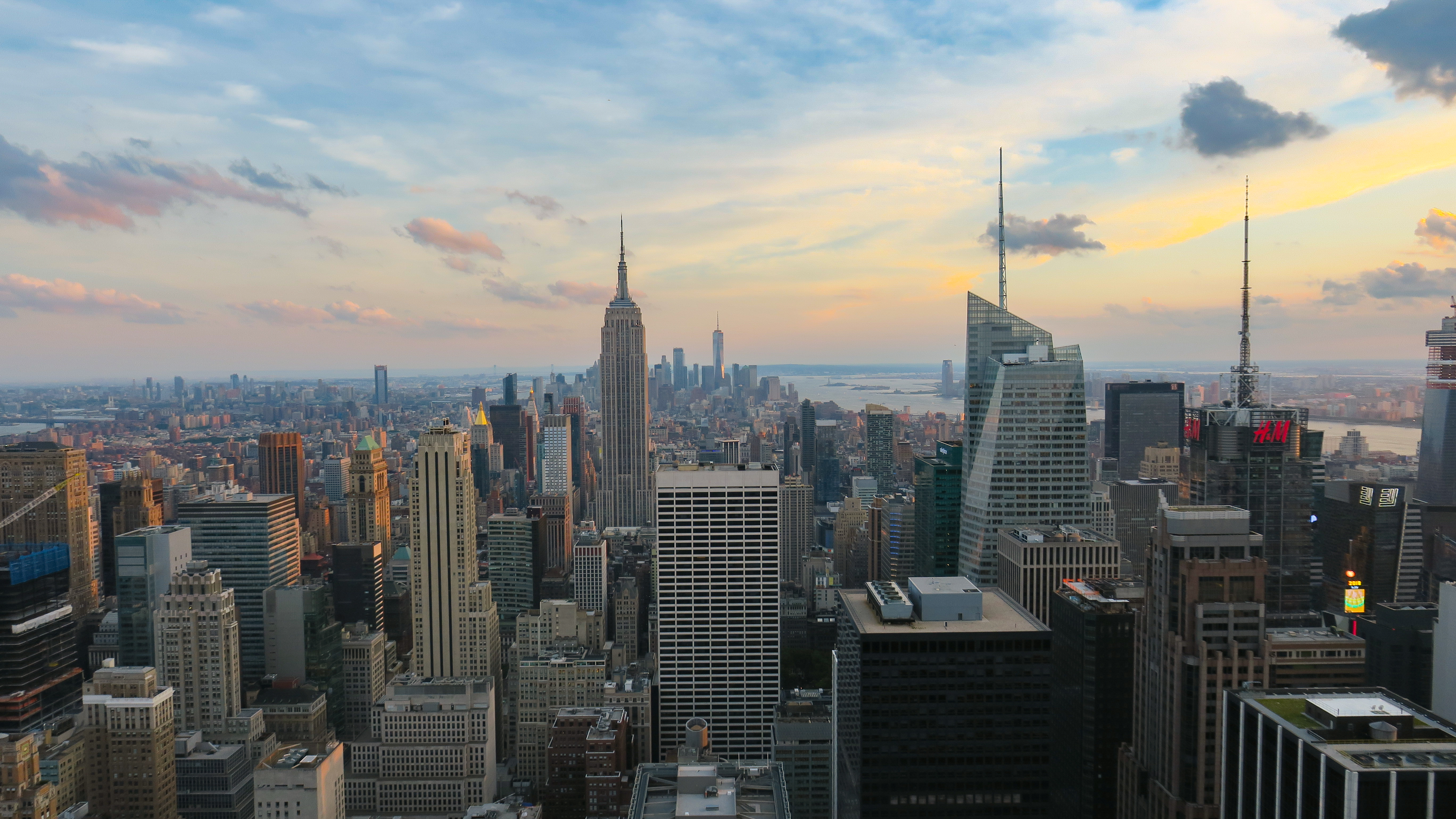 The image shows New York City from Rockefeller Center. The image includes iconic structures like the Empire State Building and One World Trade Center in the distance.